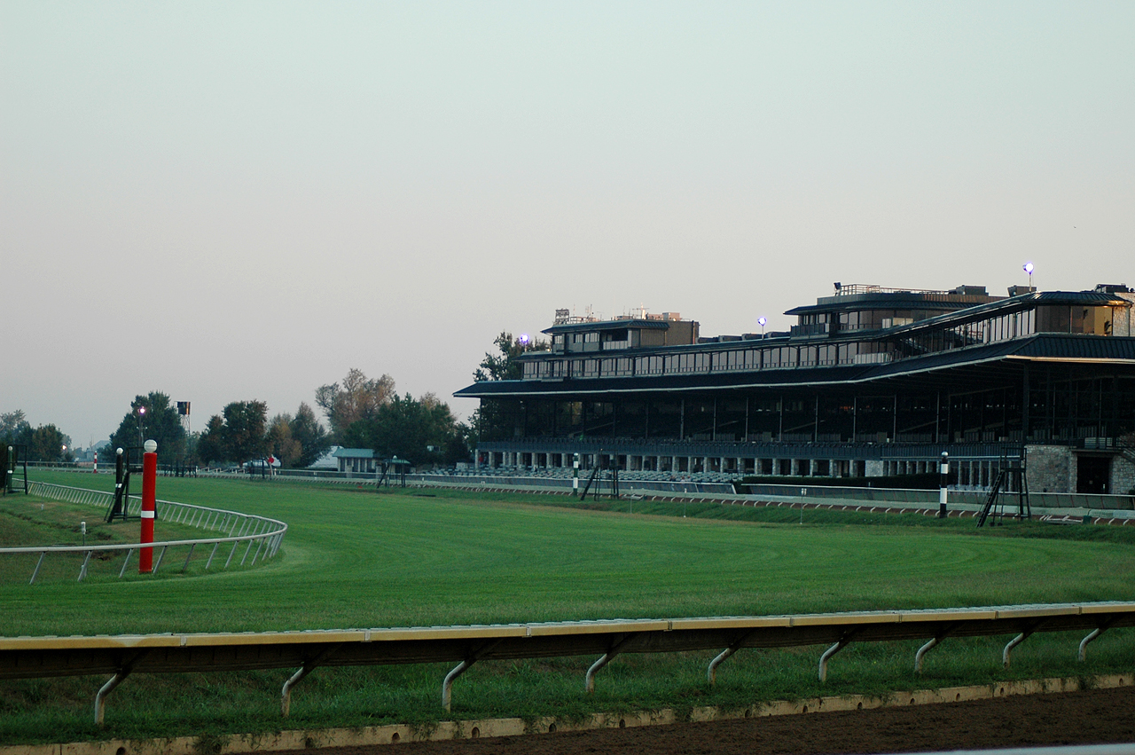 Keeneland Race Course in the early morning taken with Nikon D70